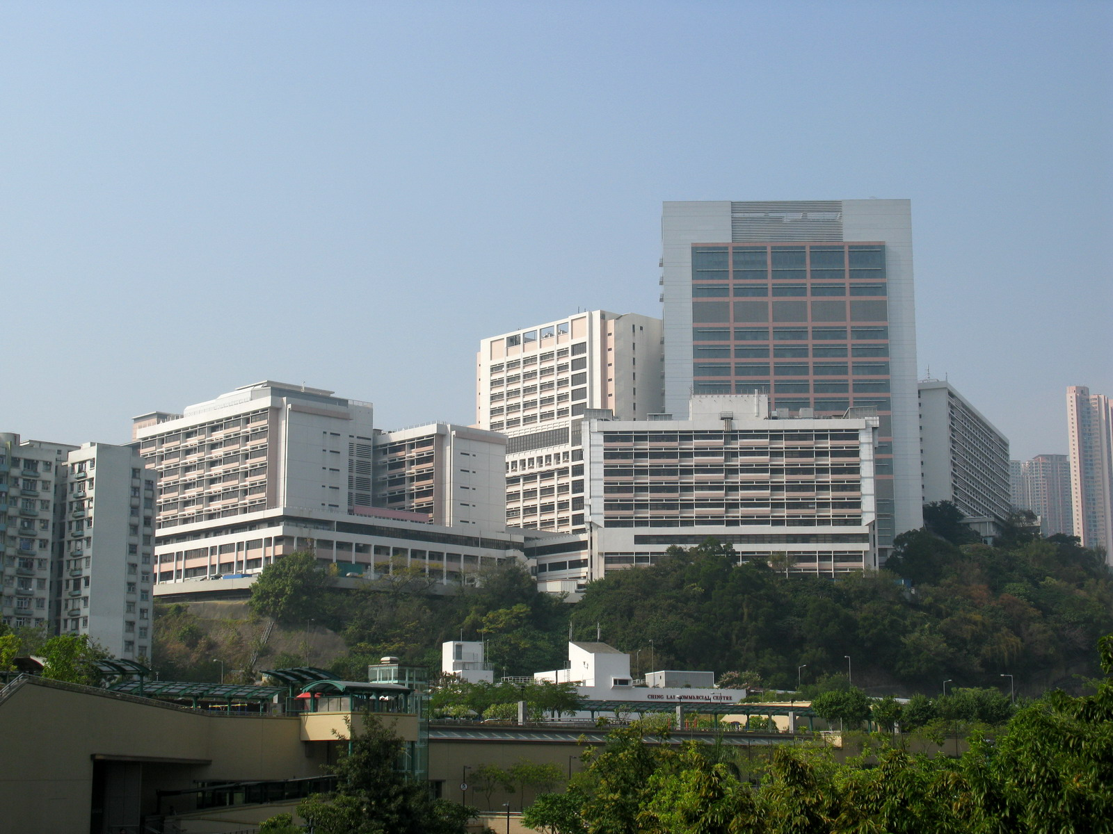 Princess Margaret Hospital